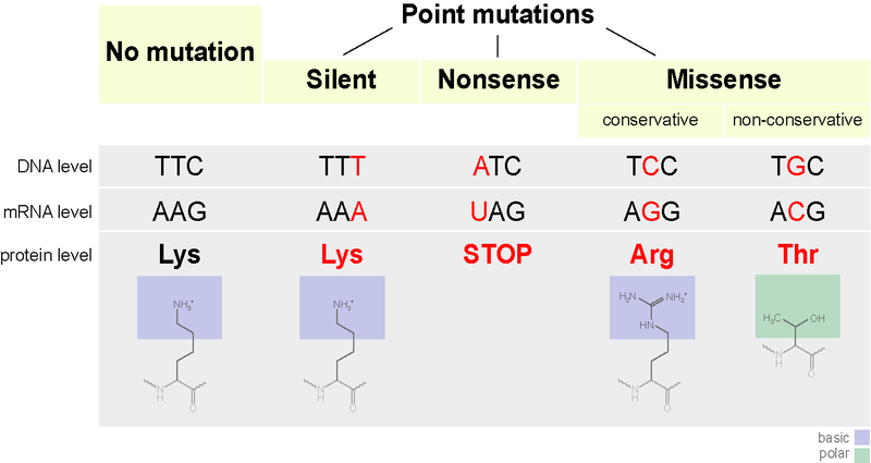 Example of silent mutation